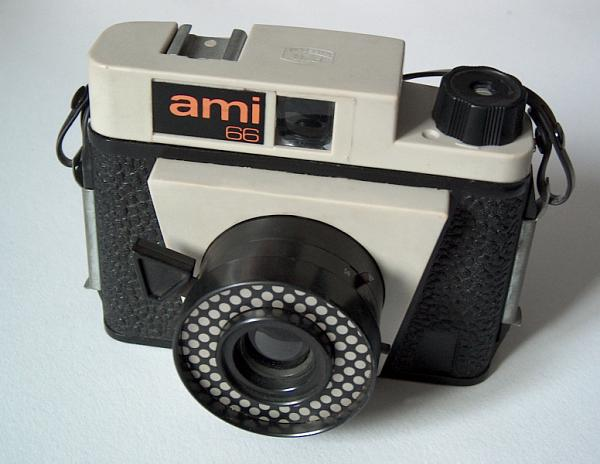 Ami 66, Polish made toy viewfinder camera from the communist era